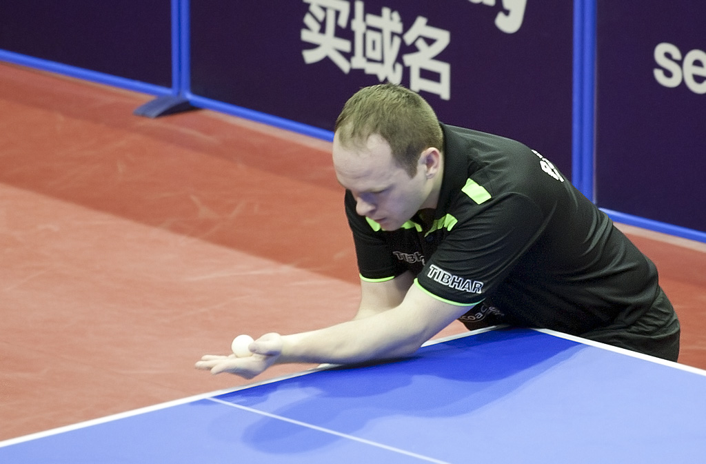 ITTF World Tour 2017 German Open, Magdeburg, Germany, 7 Nov 2017 - 12 Nov 2017, Paul Drinkhall